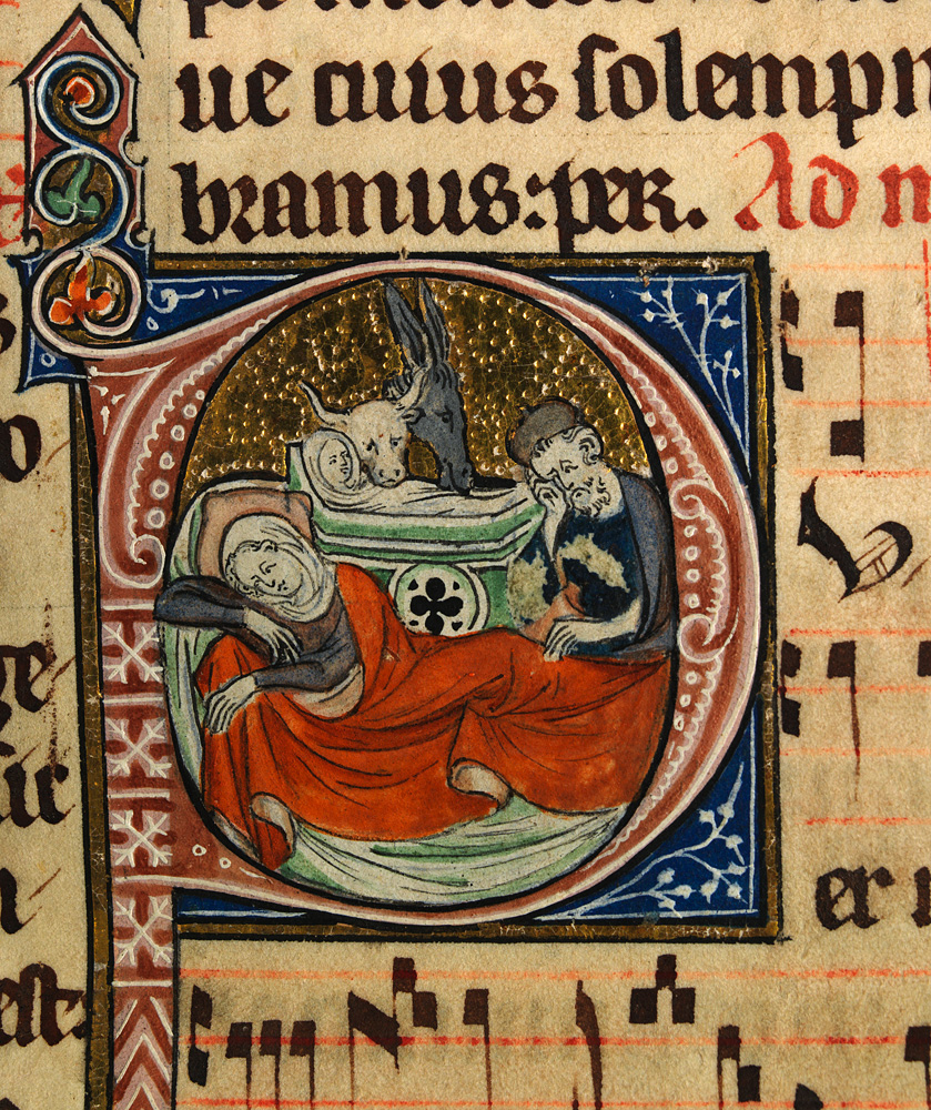 This beautiful Missal made from parchment originates from East Anglia. It is considered a very important manuscript as it is one of the earliest examples of a Missal of an English source. Sarum Missals were books produced by the Church during the Middle Ages for celebrating Mass throughout the year